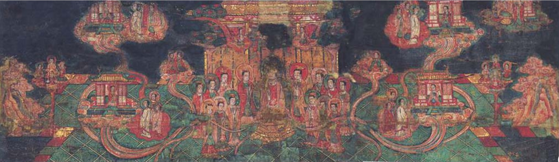 Detail of the Manichaean Diagram of the Universe, which depicts the Realm of Light, with Father of Greatness sitting on a pedestal in the centre. Source: Gulácsi, Zsuzsanna. Mani’s Pictures: The Didactic Images of the Manichaeans from Sasanian Mesopotamia to Uygur Central Asia and Tang-Ming China, pages 441 and 446.